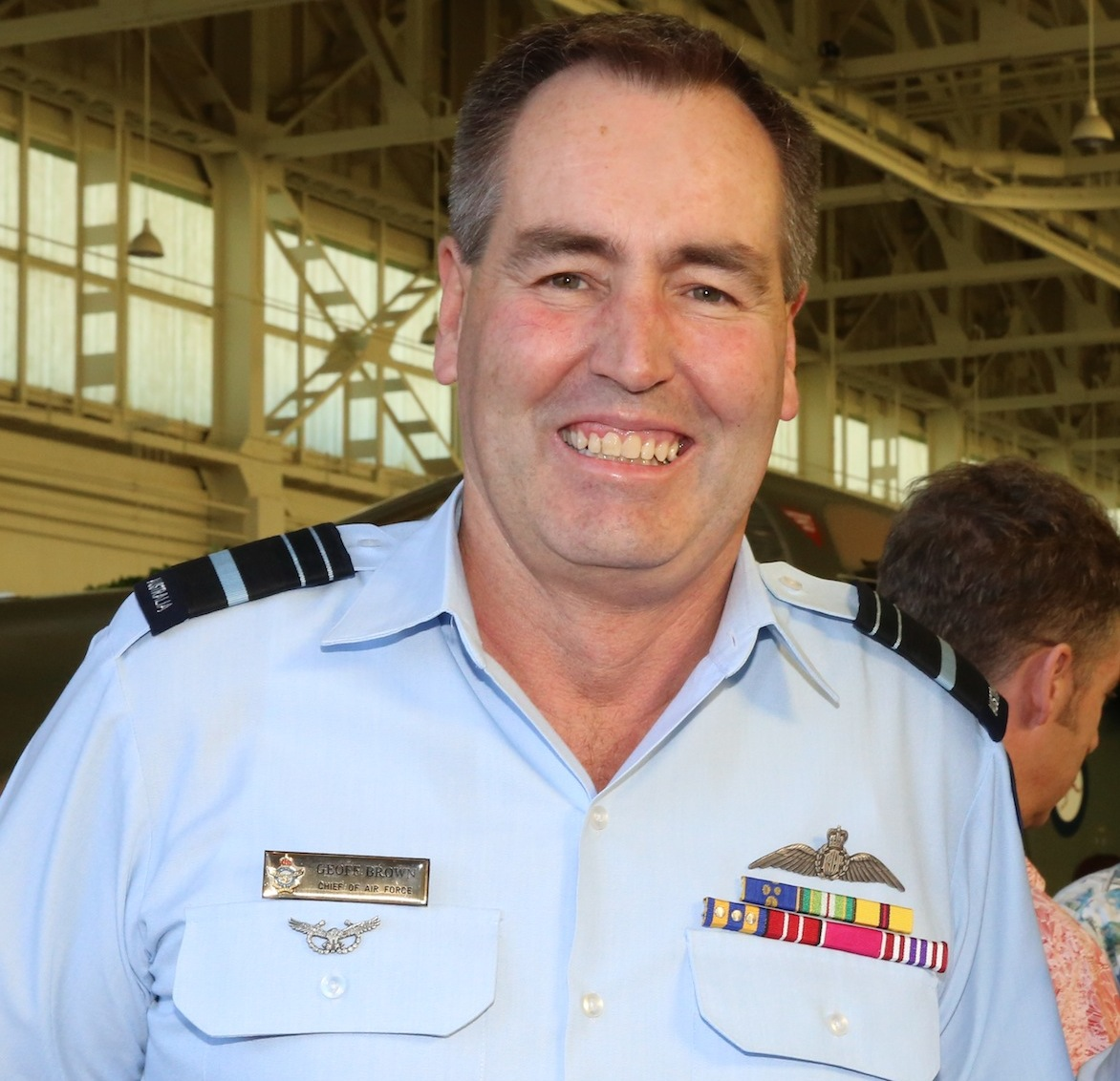 RAAF F-111 Dedication